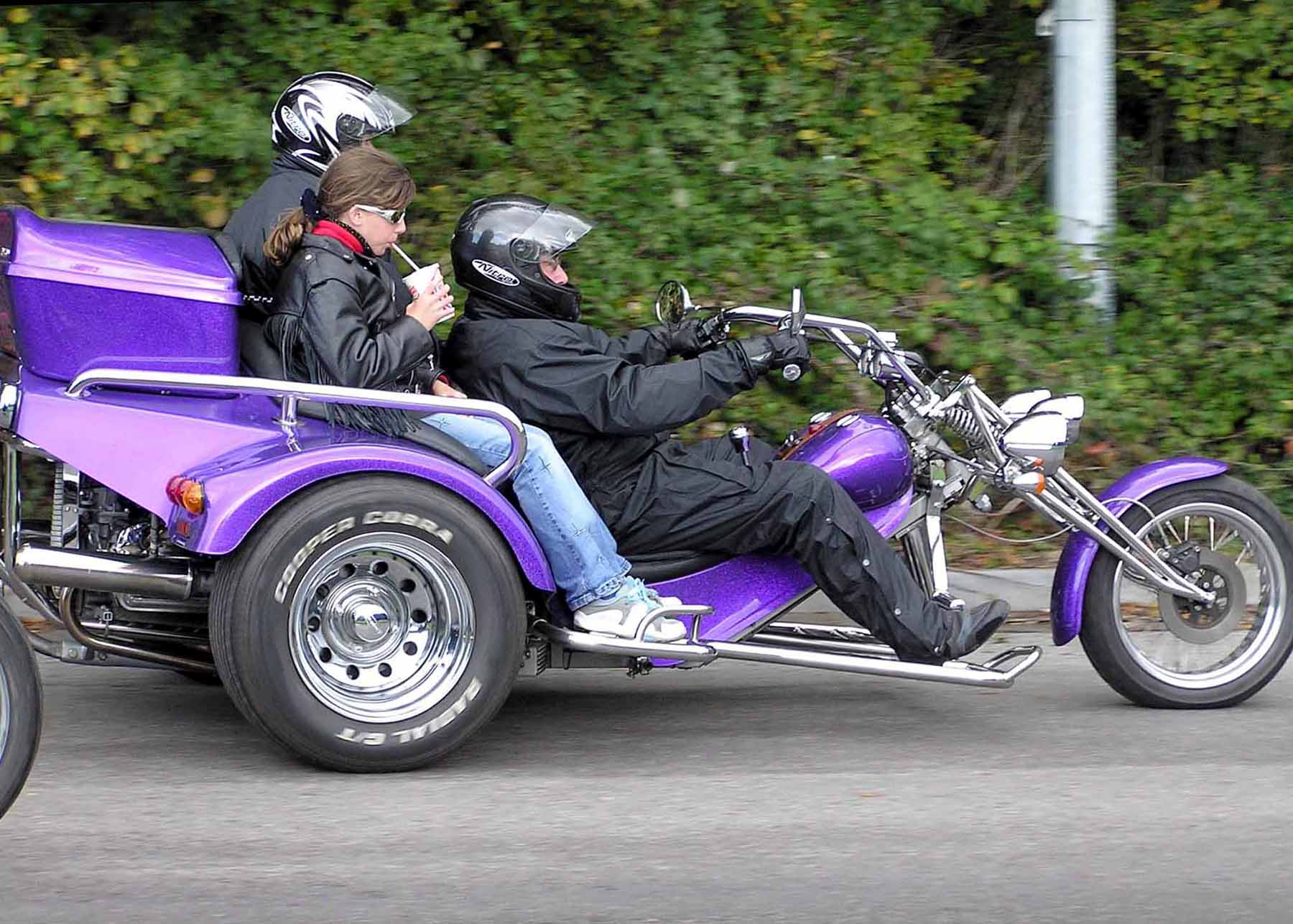 A trike motorcycle seen at Aust Motorway Services, Bristol, England. Photographed by Adrian Pingstone in October 2004 and placed in the public domain.